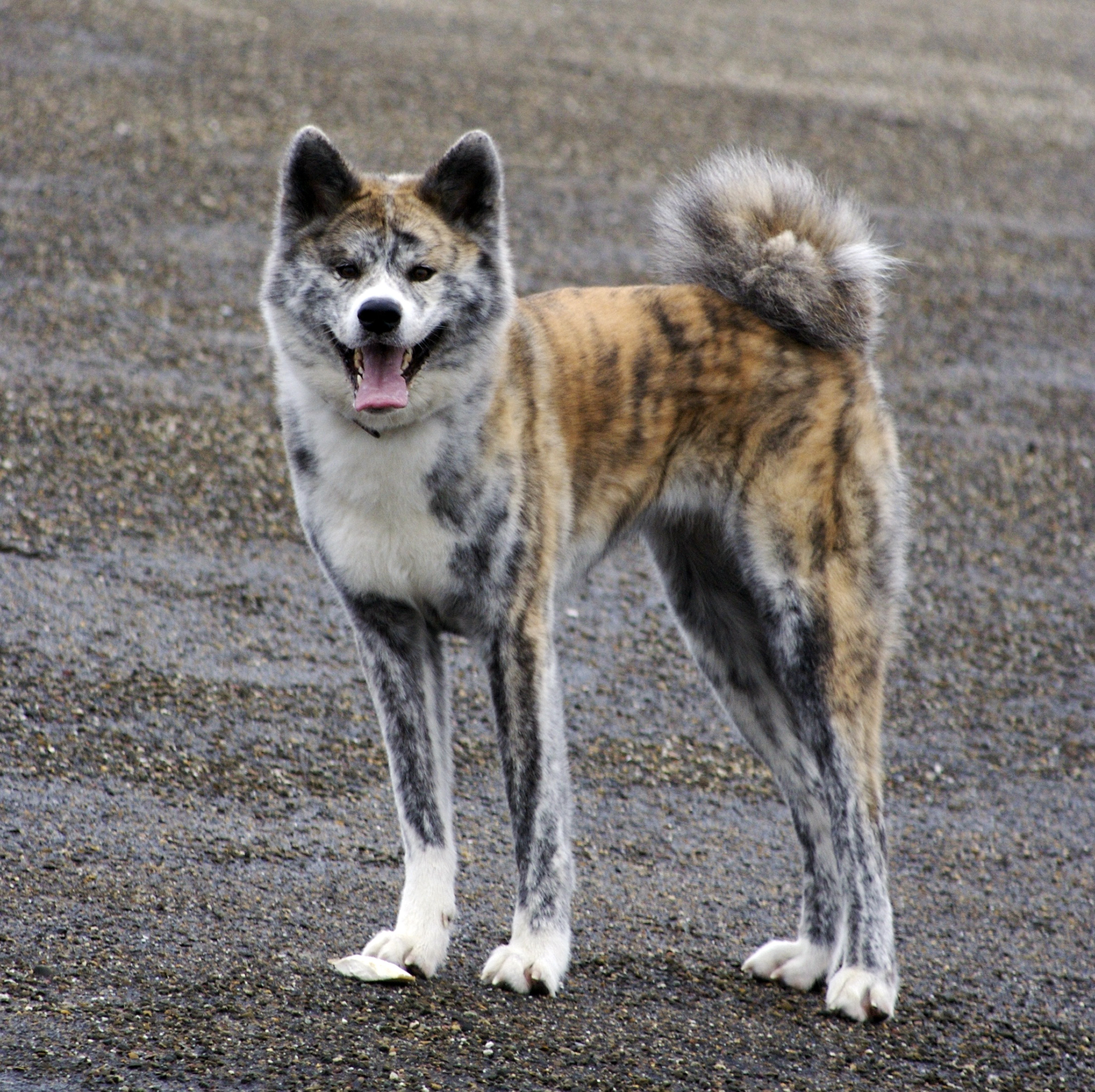 My bitch in Zeeland grinning after running around like a mad dog for 10 minutes !! Akita